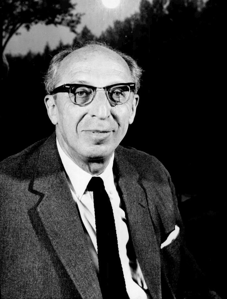 Photo of composer Aaron Copland.